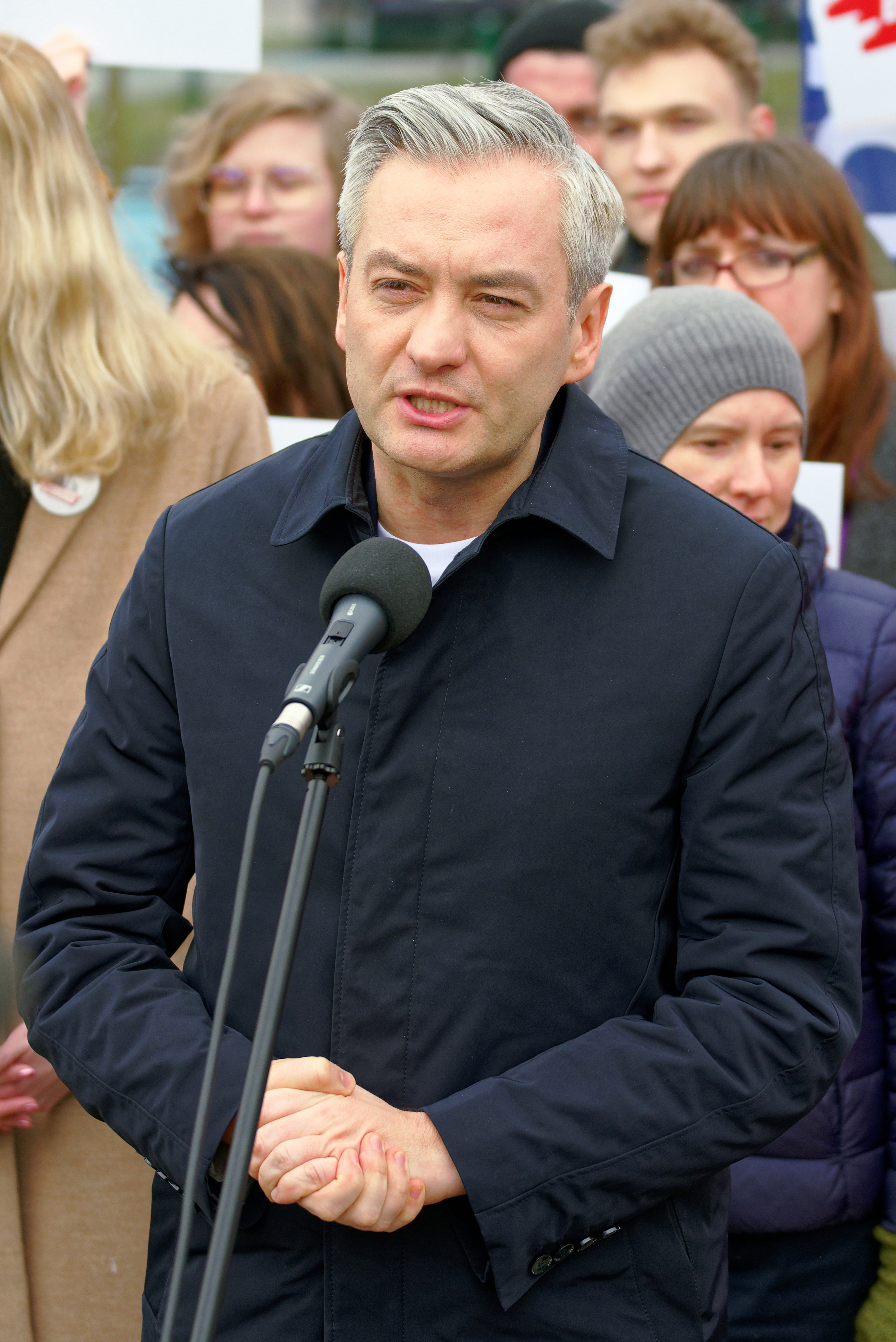 Robert Biedroń on the press conference before Manifa march in Kraków